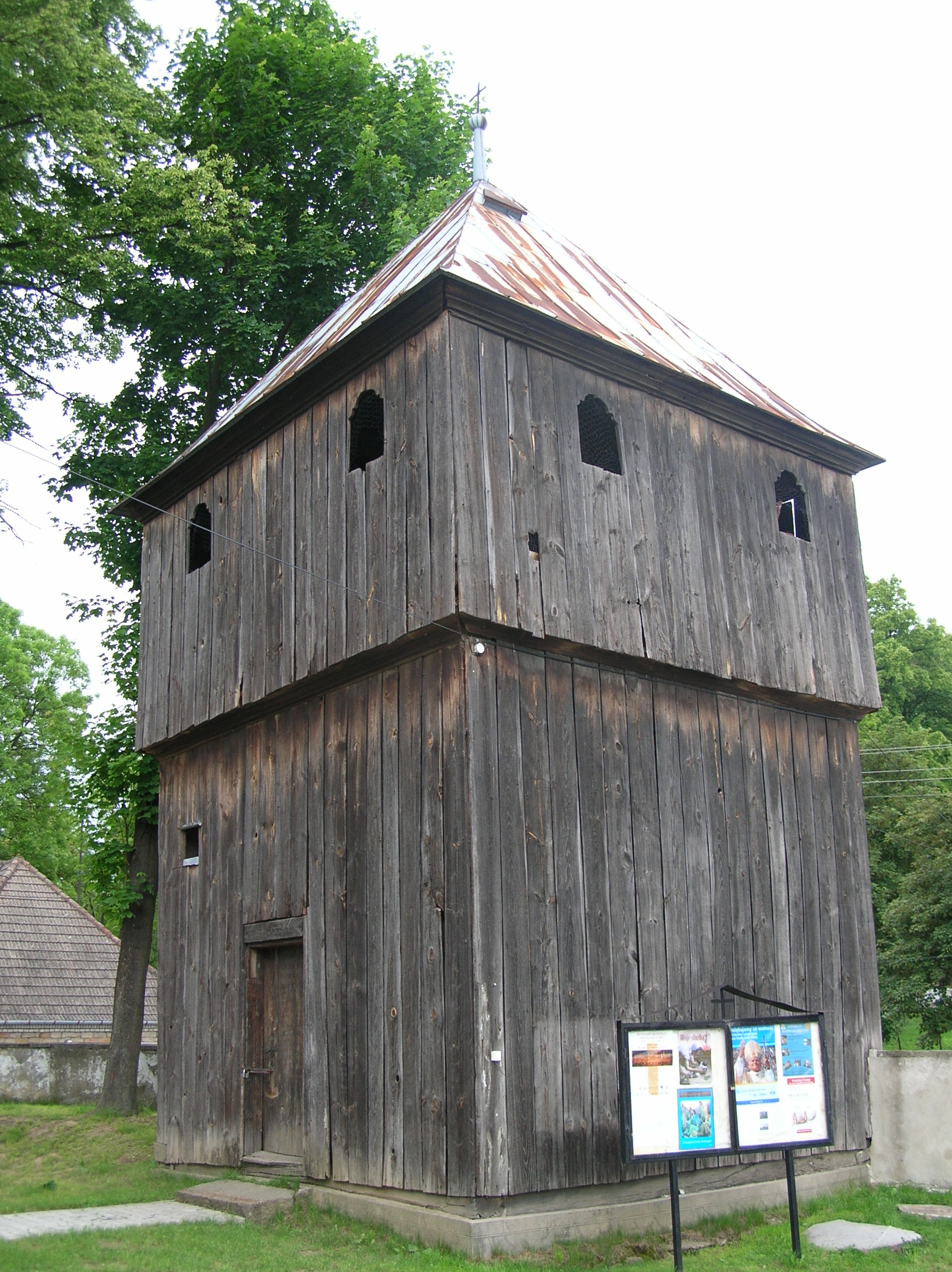 Bell tower in Świętomarz